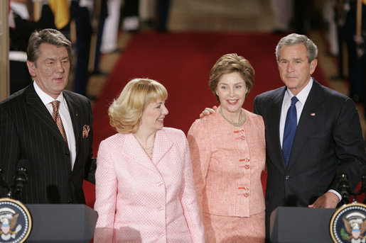 President George W. Bush and Ukraine President Viktor Yushchenko are joined at the podiums by first ladies Laura Bush and Kateryna Yushchenko. 4 April 2005, the East Room of the White House.